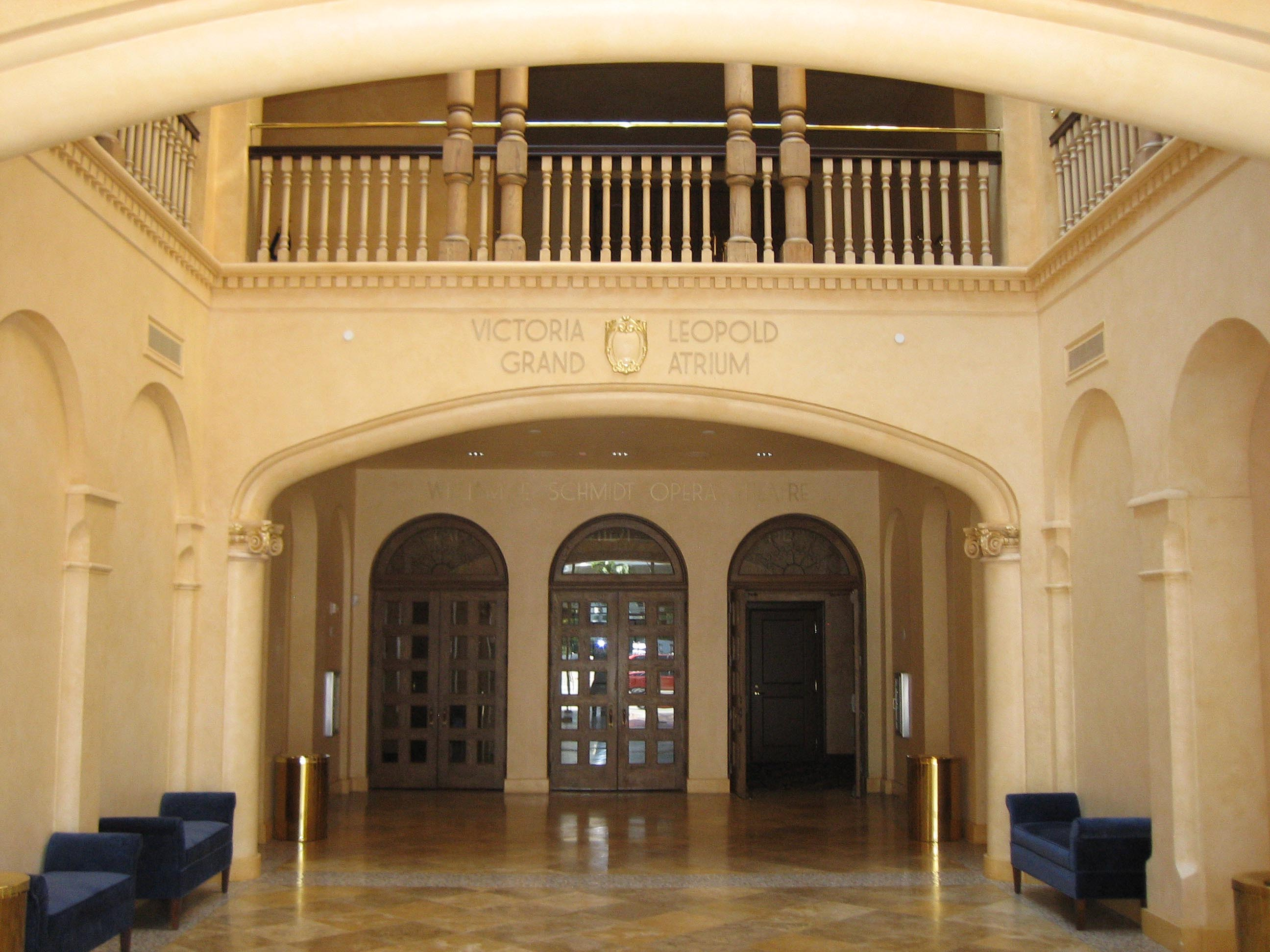 Taken by Viva-Verdi on 25 March 2008. Viva-Verdi (talk) 21:03, 27 March 2008 (UTC)